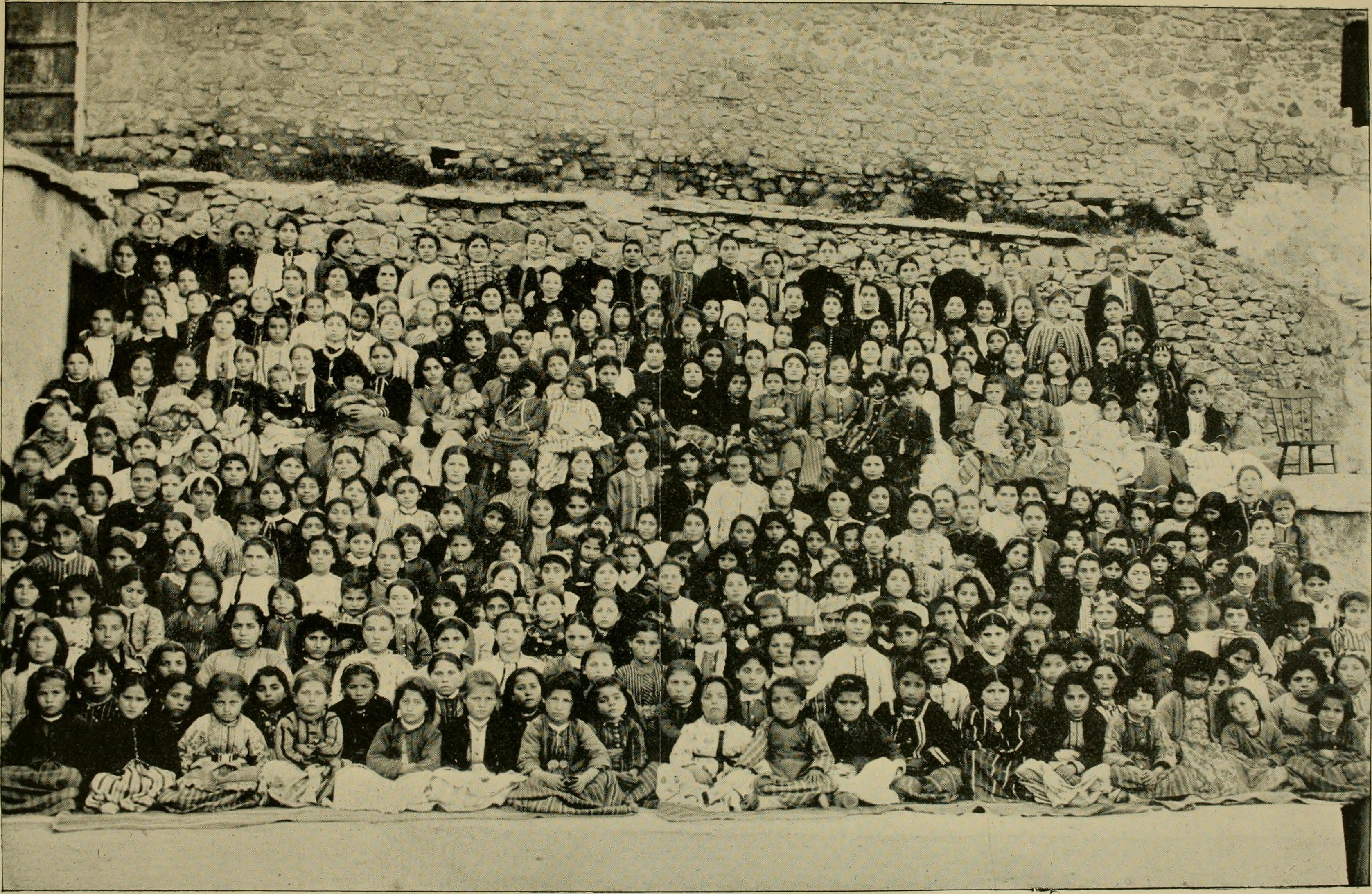 Title: Life and light for woman Year: 1873 (1870s) Authors: Woman's Board of Missions Subjects: Congregational churches Publisher: (Boston : Woman's Boards of Missions Text Appearing Before Image: , byself; Mrs. Leavitt L. Olds, Clinton, Wis.,by Mrs. D. M. Olds; Madison, Mrs. Re-becca R. Smith. ALABAMA. Talladega.—College Aux., 10 00 Total, 10 00 BULGARIA. Samokov.—Devr Drops for M. Star, 2 20 Total, 2 20 CALIFORNIA. Santa Paula.—M.i&a Eunice W. Blanch-ard, 1 00 Total, 1 00 CHINA. Peking. —Silver Thank 0£E., 25 00 Total, 25 00 CONNECTICUT. Brookfield Centre.—C. E.,Hartford.—Warhmton Chapel, S. S., 5 0012 05 Total, FLORIDA. Tampa.—W. H. M. TJ., LOUISIANA. JNew OrZeajis.—University Ch., Total, 17 05 13 40 Total, 10 00 NEW YORK. iVew York.—M. W., Silver, 1 00 Total, 1 00 RHODE ISLAND. Promdence.—Pilgrim Ch., 5 00 Total, 5 00 Dallas.—Virst Ch., const. L. M. Mrs. S. E.Swift, 30 00 Total, 30 00 Ifadjin.-Mvs. Coifing and Miss Bates, ofwh. 2 silver, 10.80, Hadjin Home, GirlsSoc, 5.25, 16 05 Middle Hadjin.—S. S., 1 20 Total, 17 25 Receipts for month, 6,099 55 Previously acknowledged, 16,825 17 Total since October, $22,924 72 Miss Jessie C. Fitch, Asst Treas. Text Appearing After Image: FEMALE DEPARTMENT (1890) EUPHRATES COLLEGE, HARPOOT, TURKEY.